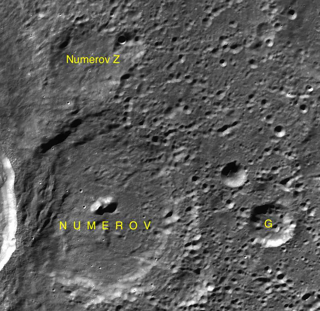 Part of the chart LAC-142 used for the presentation